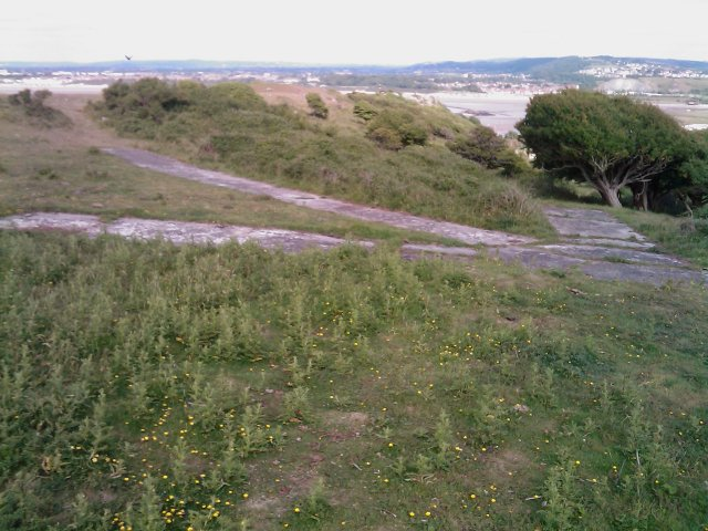 Large Concrete Military Arrow